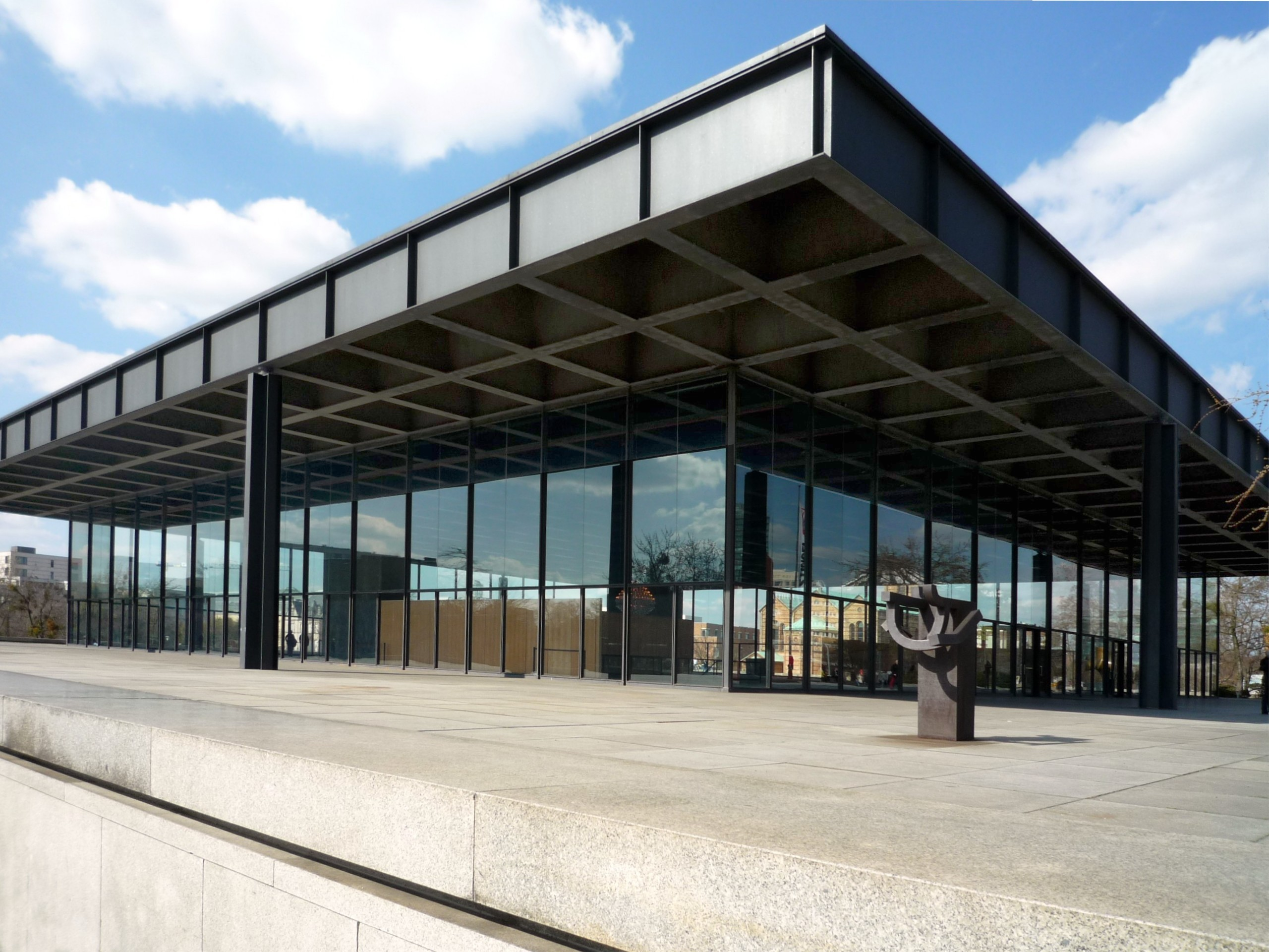 The "Neue Nationalgalerie" (New National Gallery), Mies van der Rohe architect. Opened in 1968.